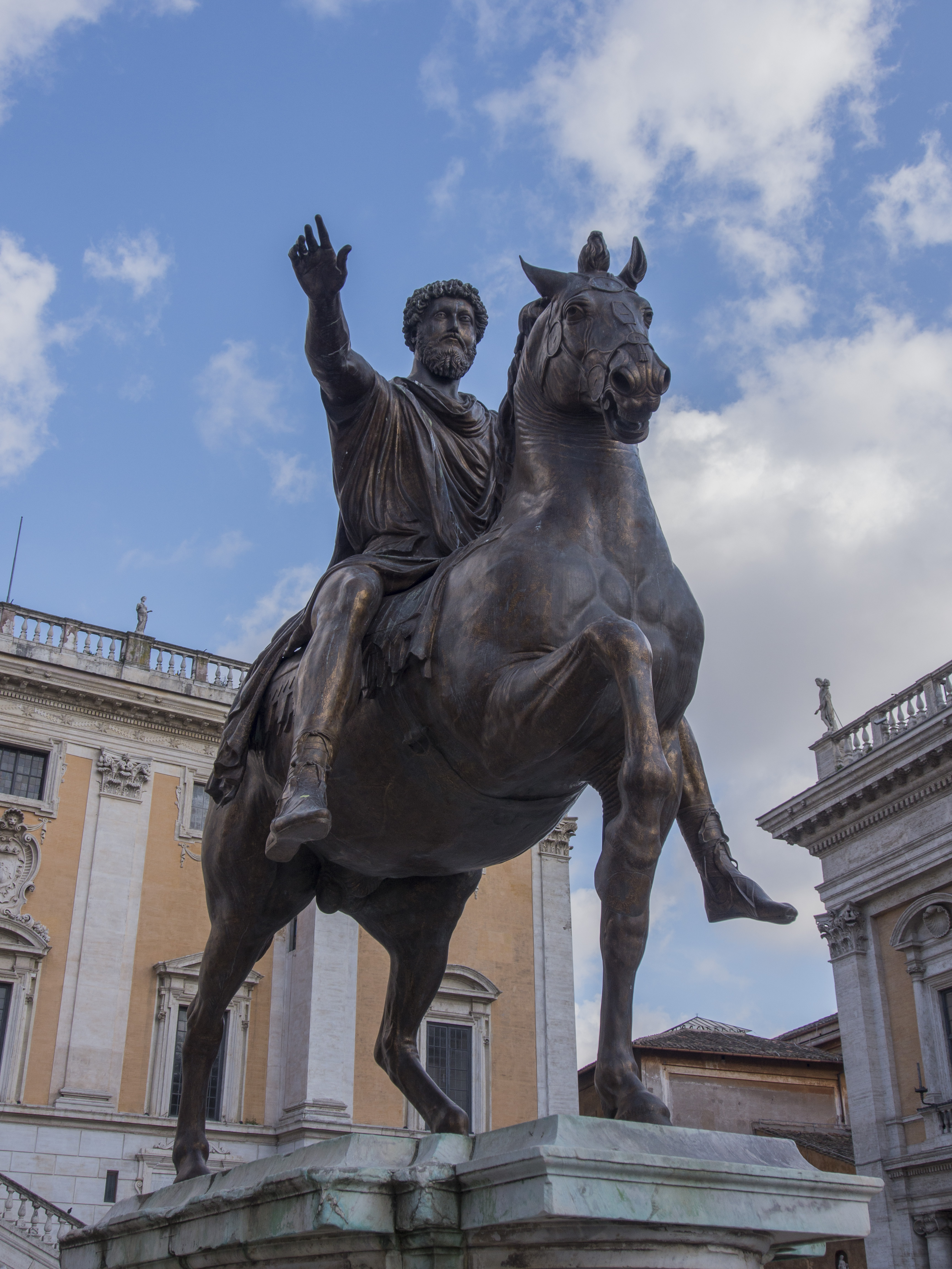 Bronze statue of Marcus Aurelius, piazza del Campidoglio in Rome. Modern copy of a Roman original of the 2nd century CE, now kept in the Palazzo Nuovo, Musei Capitolini.